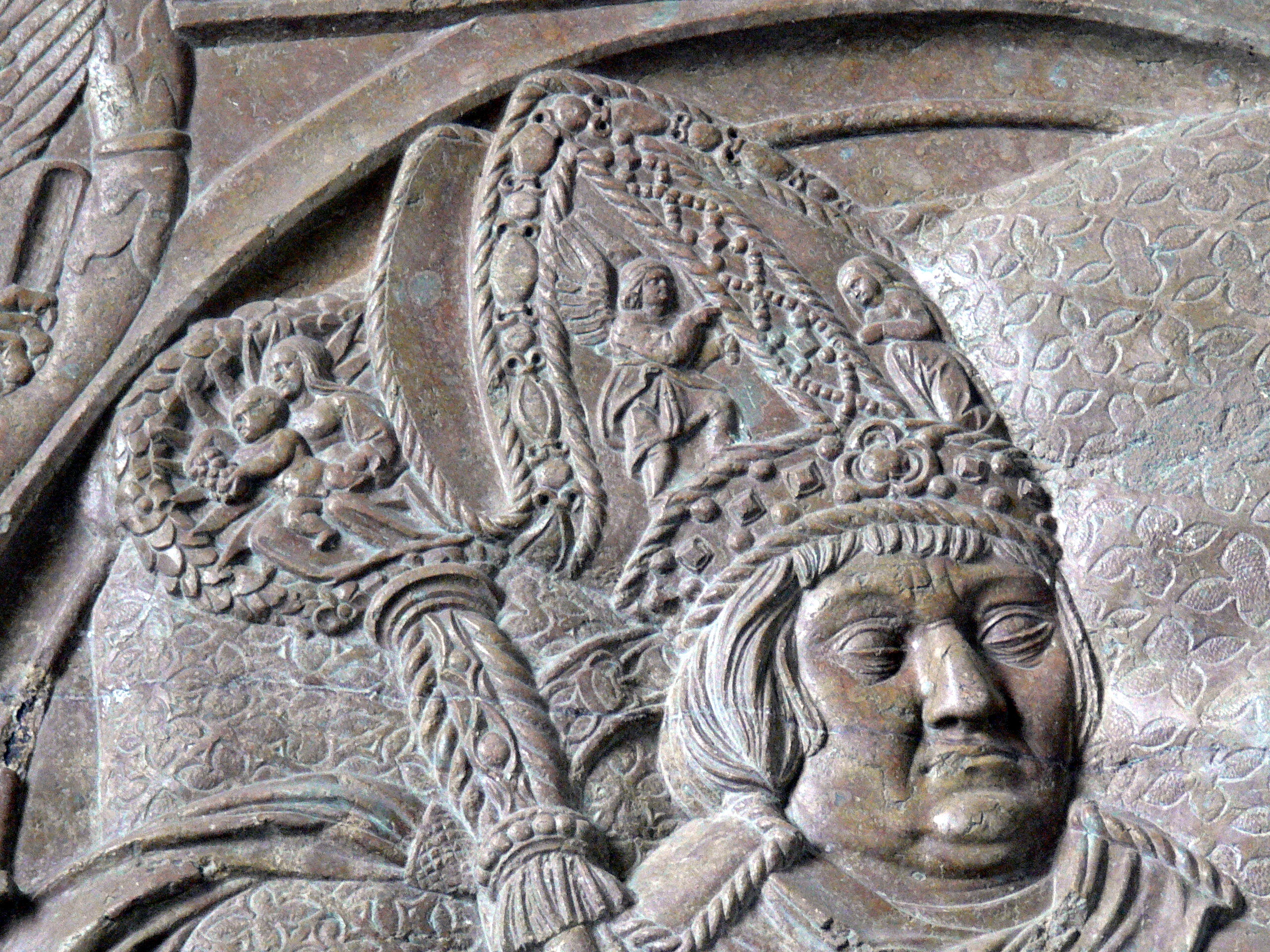 Ribe Cathedral. Epitaph of Ivar Munk ( 1530 ), created by Claus Berg in Odense - Detail